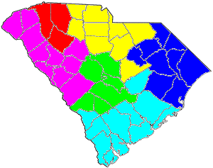 South Carolina Congressional Districts from 1962 to 1972.